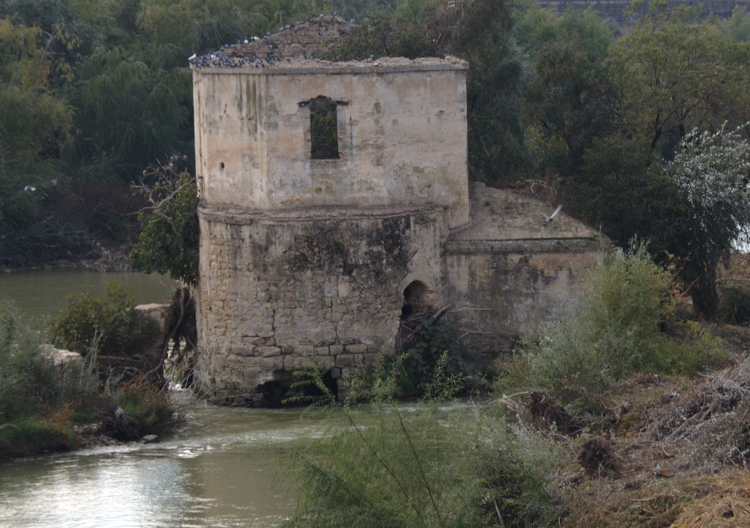 Téllez Watermill in Guadalquivir River, Córdoba (Spain).